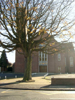 Roman Catholic church of St Oswald, Padgate, Cheshire, seen from the northeast in 2005